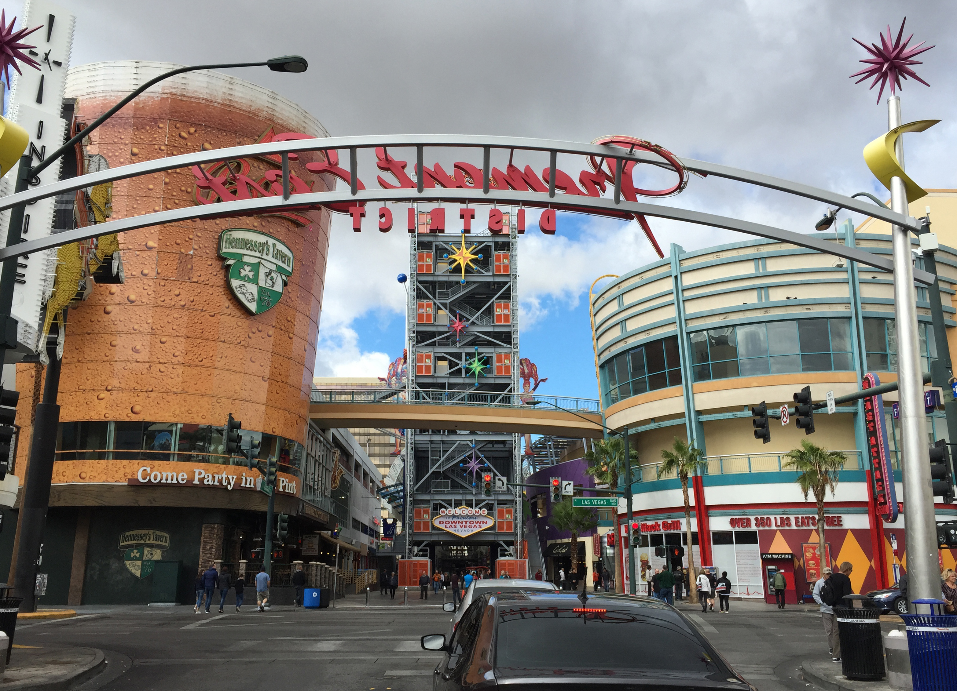 View northwest along Fremont Street at the northwest end of the Fremont East District in downtown Las Vegas, Nevada